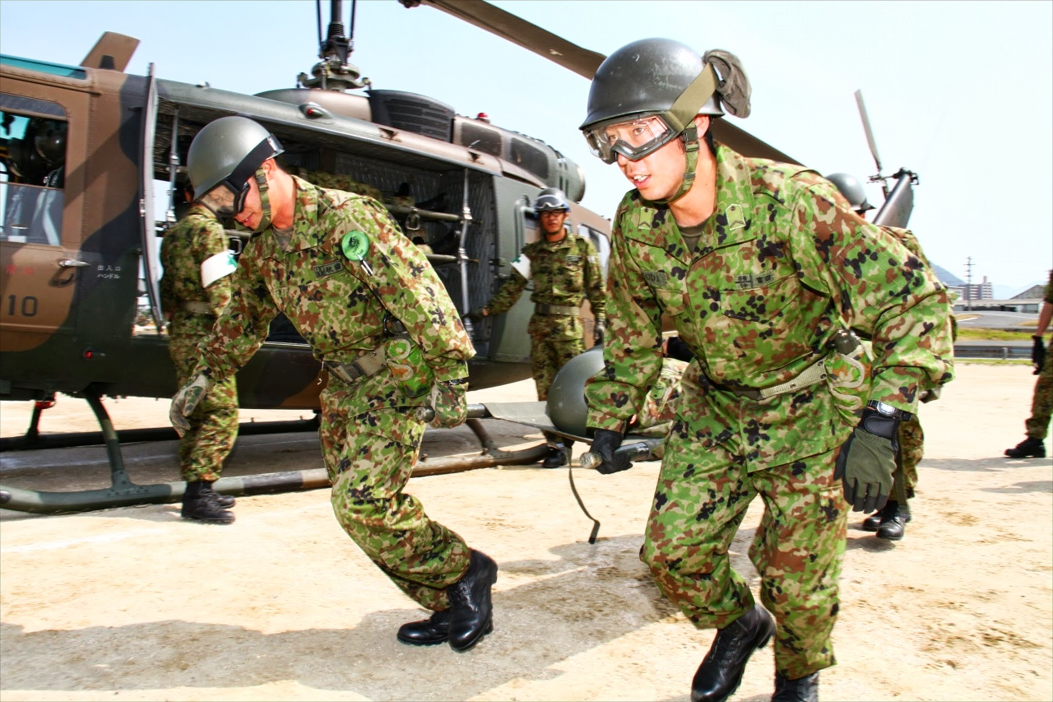 Title ＵＨ－１Ｊ 25.05.23 １３Ｂ・補助担架員集合訓練IMG_6765.jpg Album 装備 ＵＨ－１Ｊ（補助担架員集合訓練・第１３旅団）